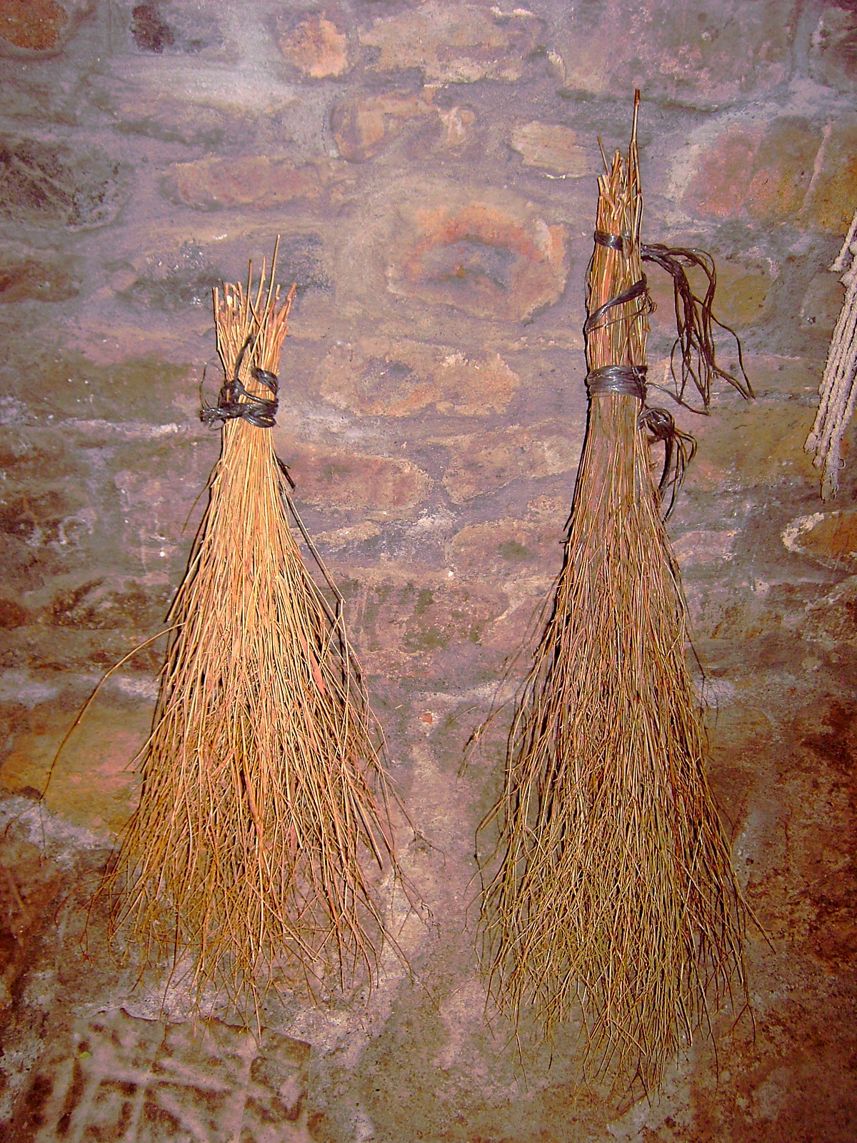 Traditional harvest bessom brooms, for sweeping grain or other simillar arids. Aragonés: Escopallos tradicionals, ta escobar o grano u altros aridos semilars.